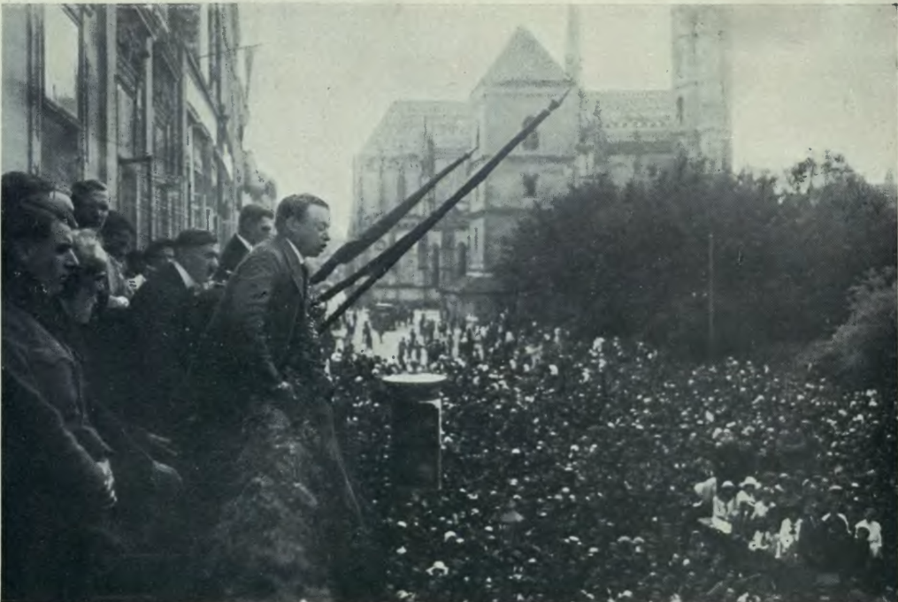 Béla Kun gives an address in Kassa (now Košice, Slovakia)